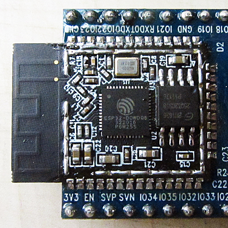 A photo of an Espressif ESP-WROOM-32 SMT Wi-Fi/Bluetooth module (PCB with black solder mask) seen soldered onto the end of an Espressif ESP32-DevKitC V1 development board (PCB with dark blue solder mask). The ESP32 chip (ESP32‑D0WDQ6) is centered within the photo.